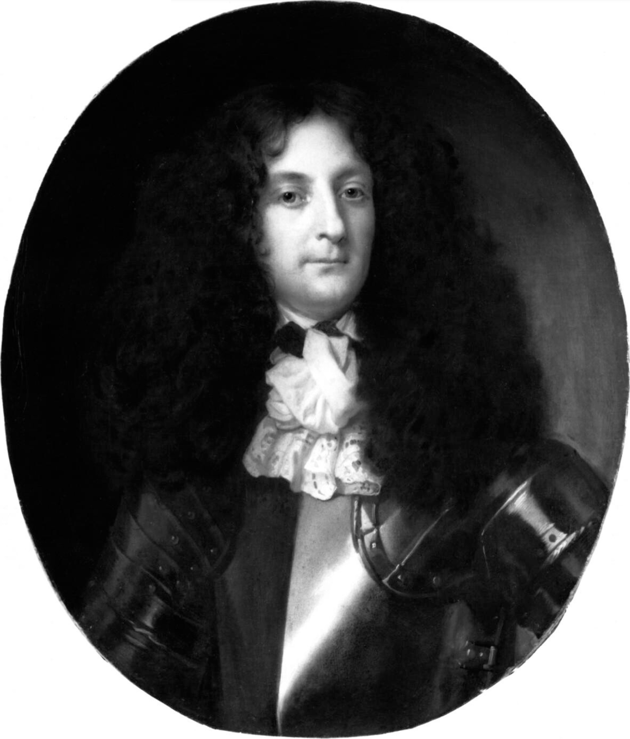 Sir George Hamilton, 1st Baronet, of Donalong (c1607-1679)